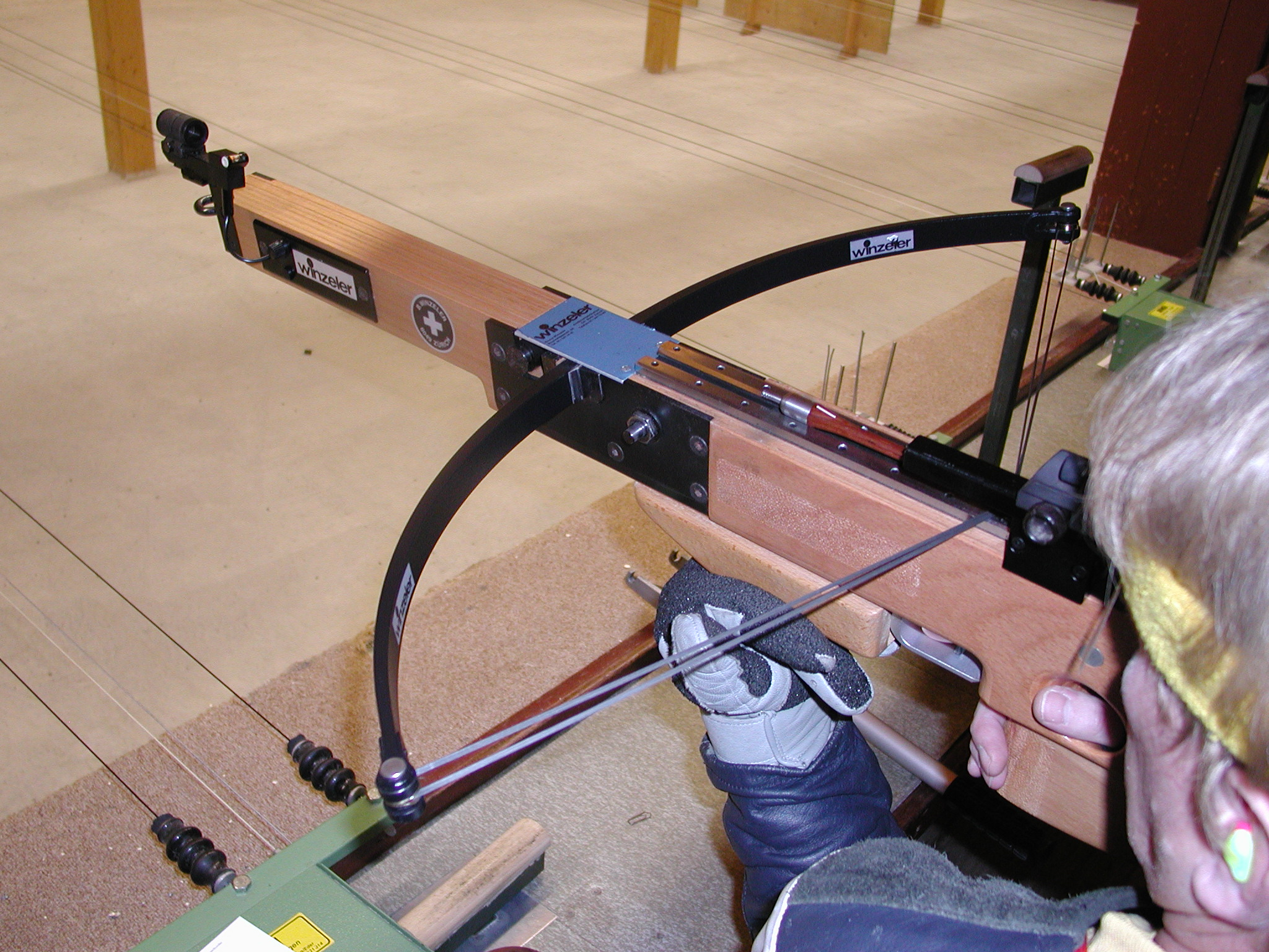 Shooting with sports-crossbow 10m